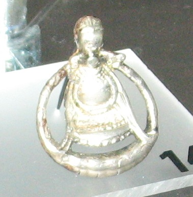 A Viking period silver amulet of the Norse goddess Freyja found in Aska in Hagebyhöga parish, Aska hundred, Vadstena municipality, Östergötland, Sweden.